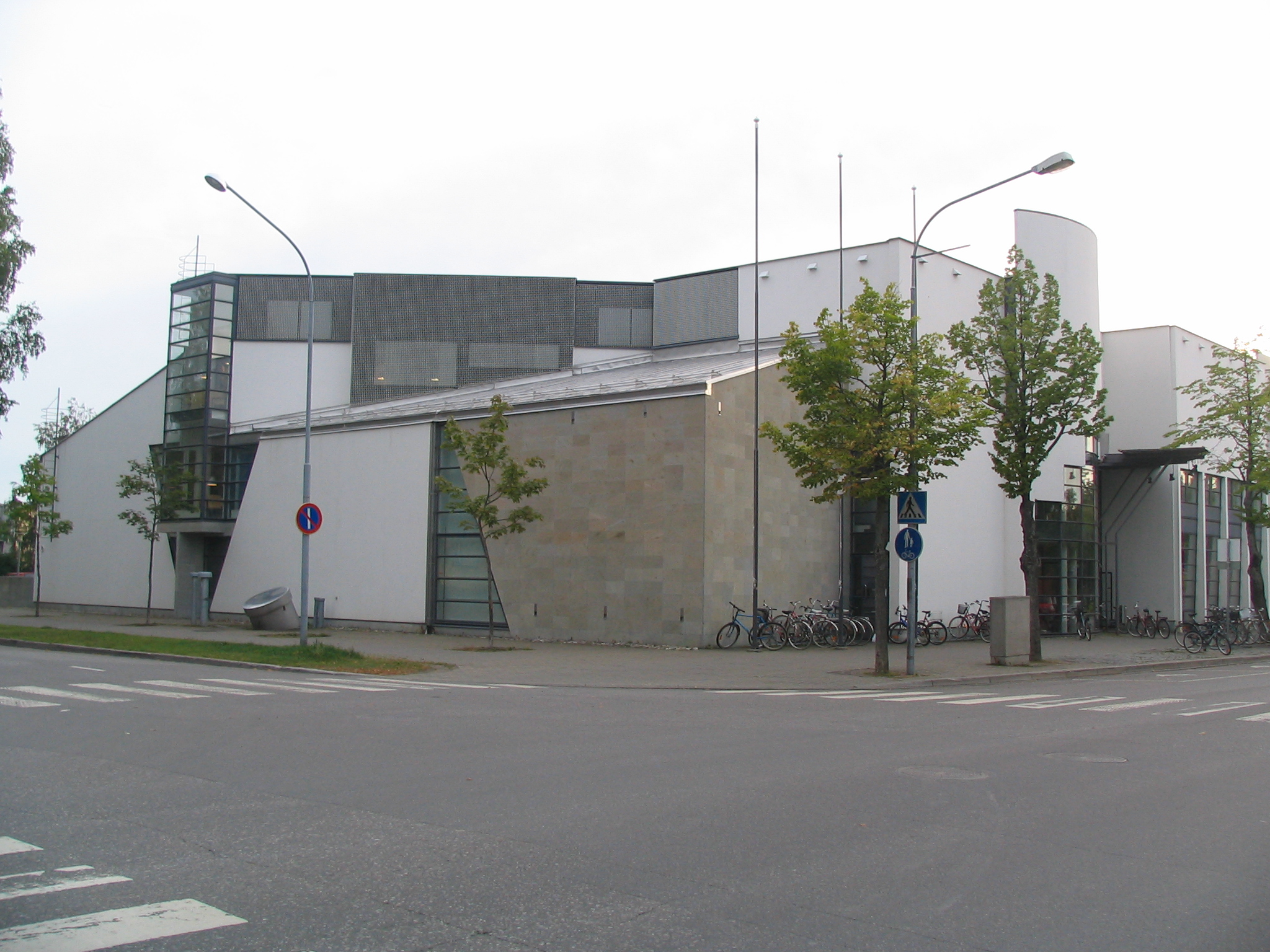 Main library of Joensuu Regional Library / North Karelia Provincial Library